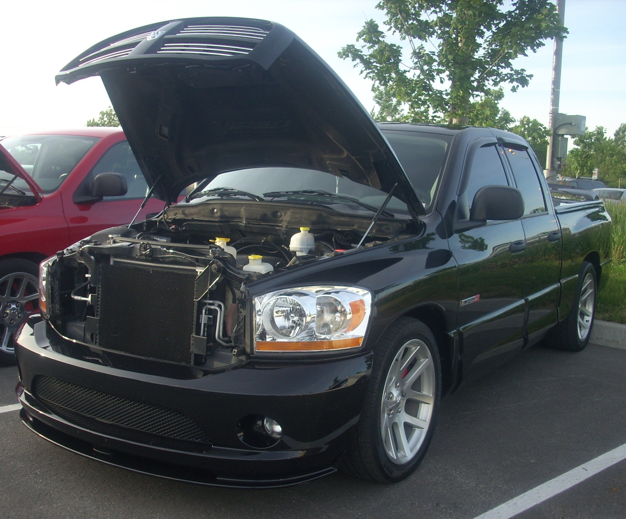 2006 Dodge Ram SRT-10 photographed in Laval, Quebec, Canada at Centropolis Laval.